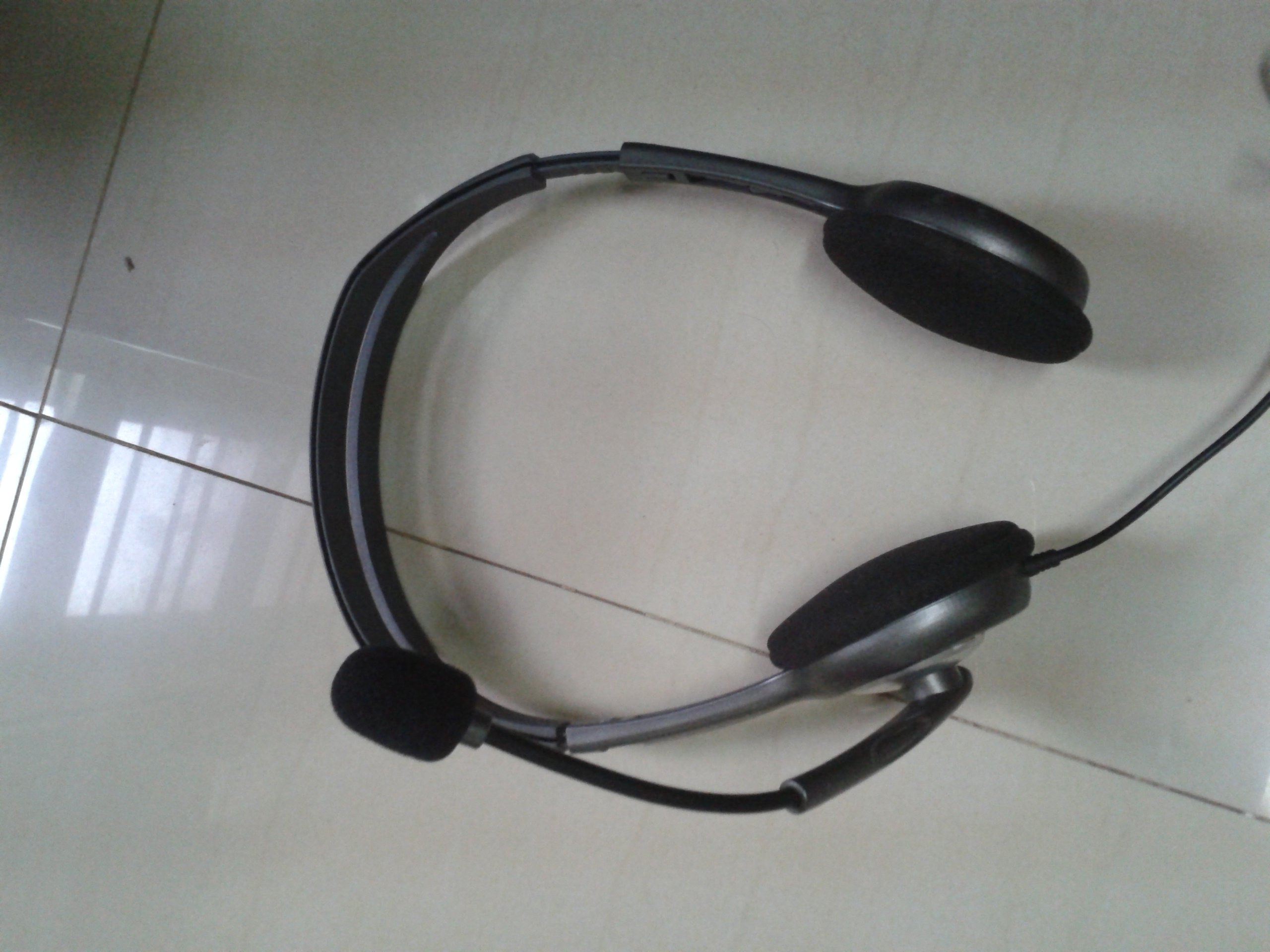 headphones